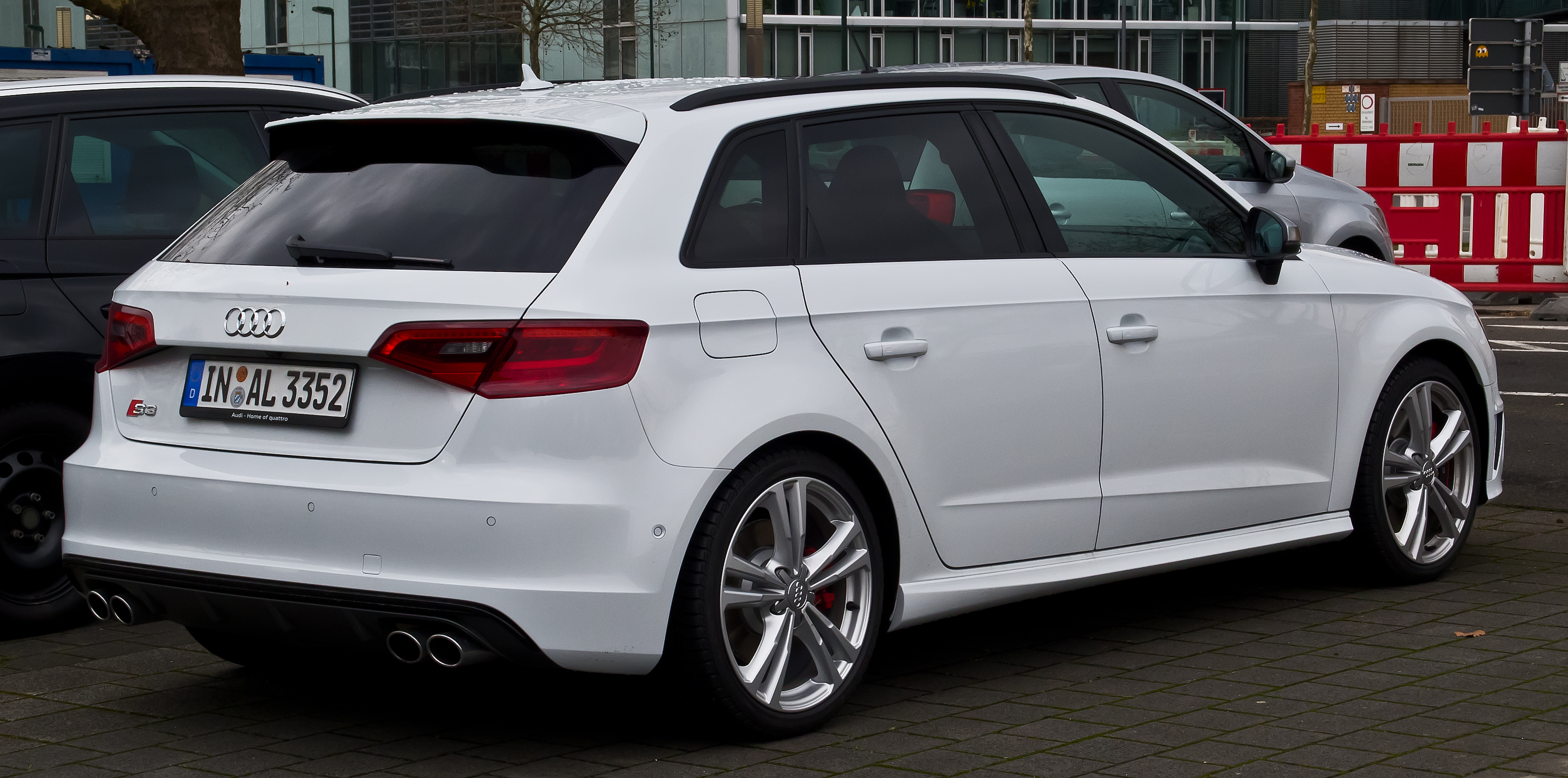 Audi S3 Sportback (8V)